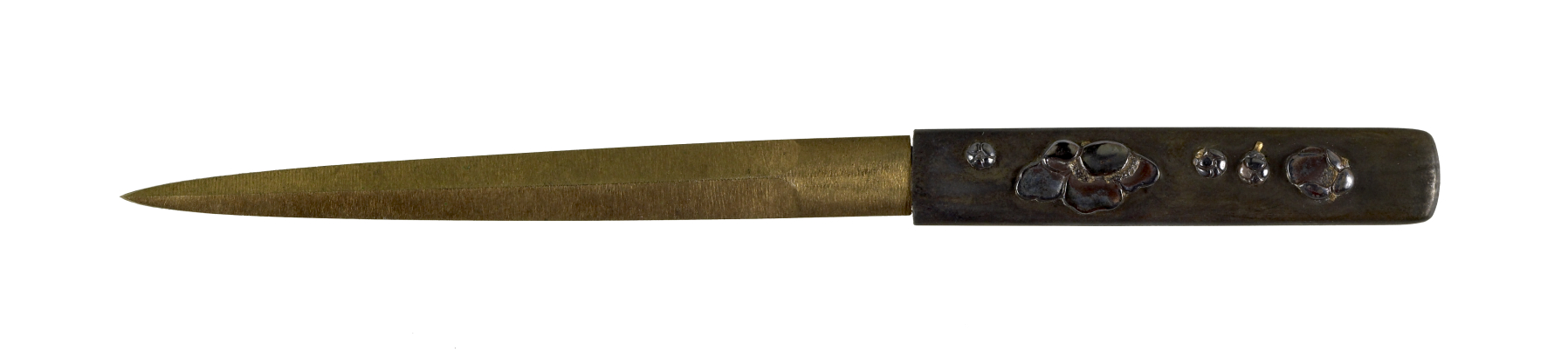 Five plum blossoms and buds decorate this umabari. This is part of a mounted set.